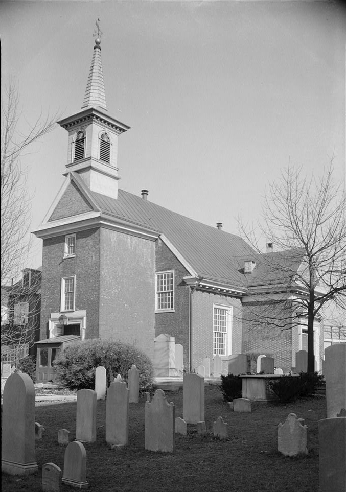 Gloria Dei (Old Swedes') Church National Historic Site